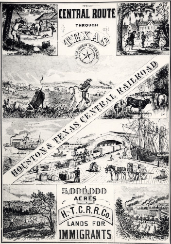 Image of a broadside advertisement for the Houston and Texas Central Railroad offering land for immigrants. Multiple landscapes and cityscapes--many of which showcase modern modes of transportation--are depicted to illustrate the life awaiting the traveler.